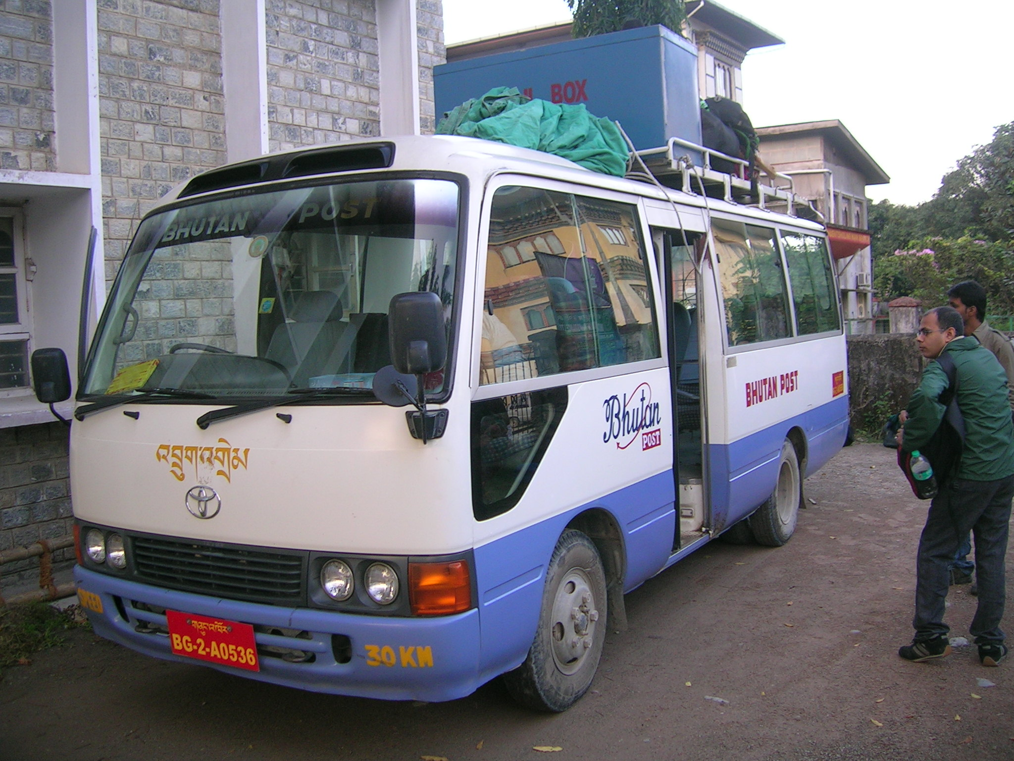 Bus operated by Bhutan Post between Phuntshoeling and Thimphu